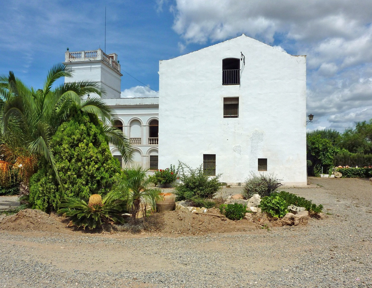 Main view of the Mas Miró, the family farmhouse of Joan Miró, that inspired his famous painting "The Farm" (la Ferme, la Masia)